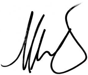 Maria Sharapova signature